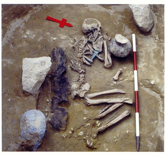 Grave of the Early Bronzeage